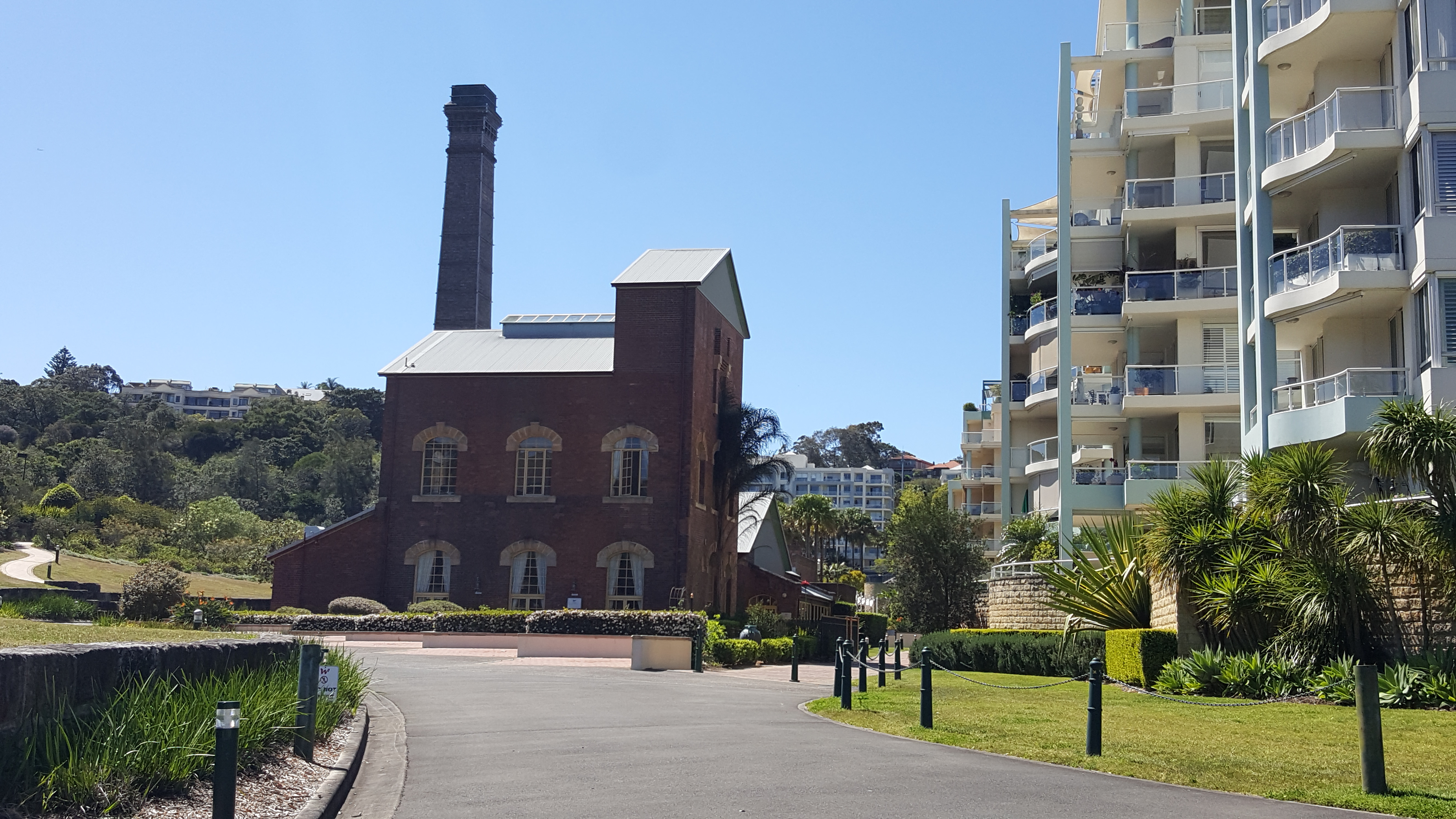 Remaining buildings from old Gasworks at Waverton, New South Wales.